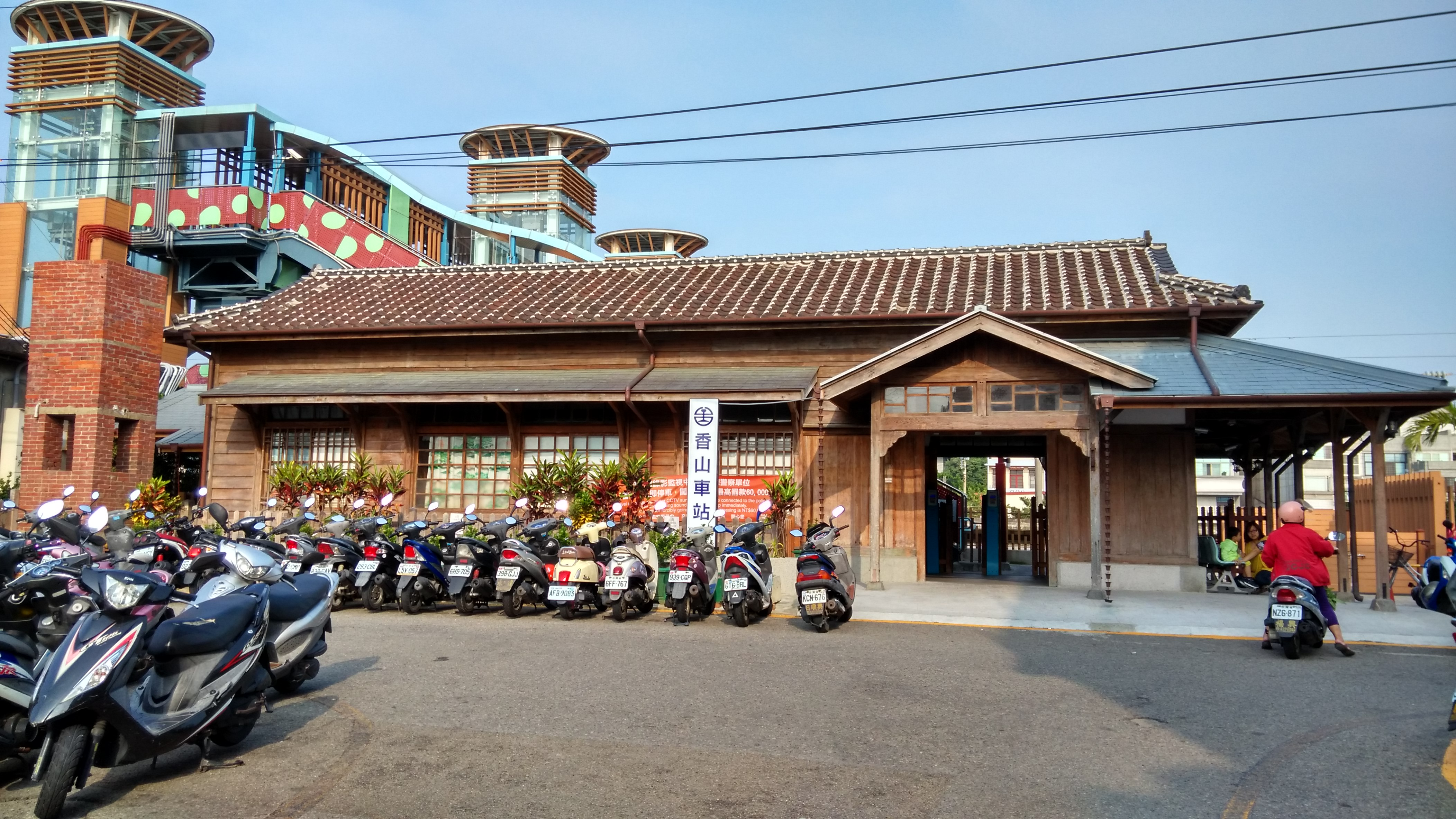 Taiwan "Siang Shan" Railway Station ("Shiang Shan" is an old translation.)中文（台灣）: 香山車站，於2015年由Yuriy拍攝